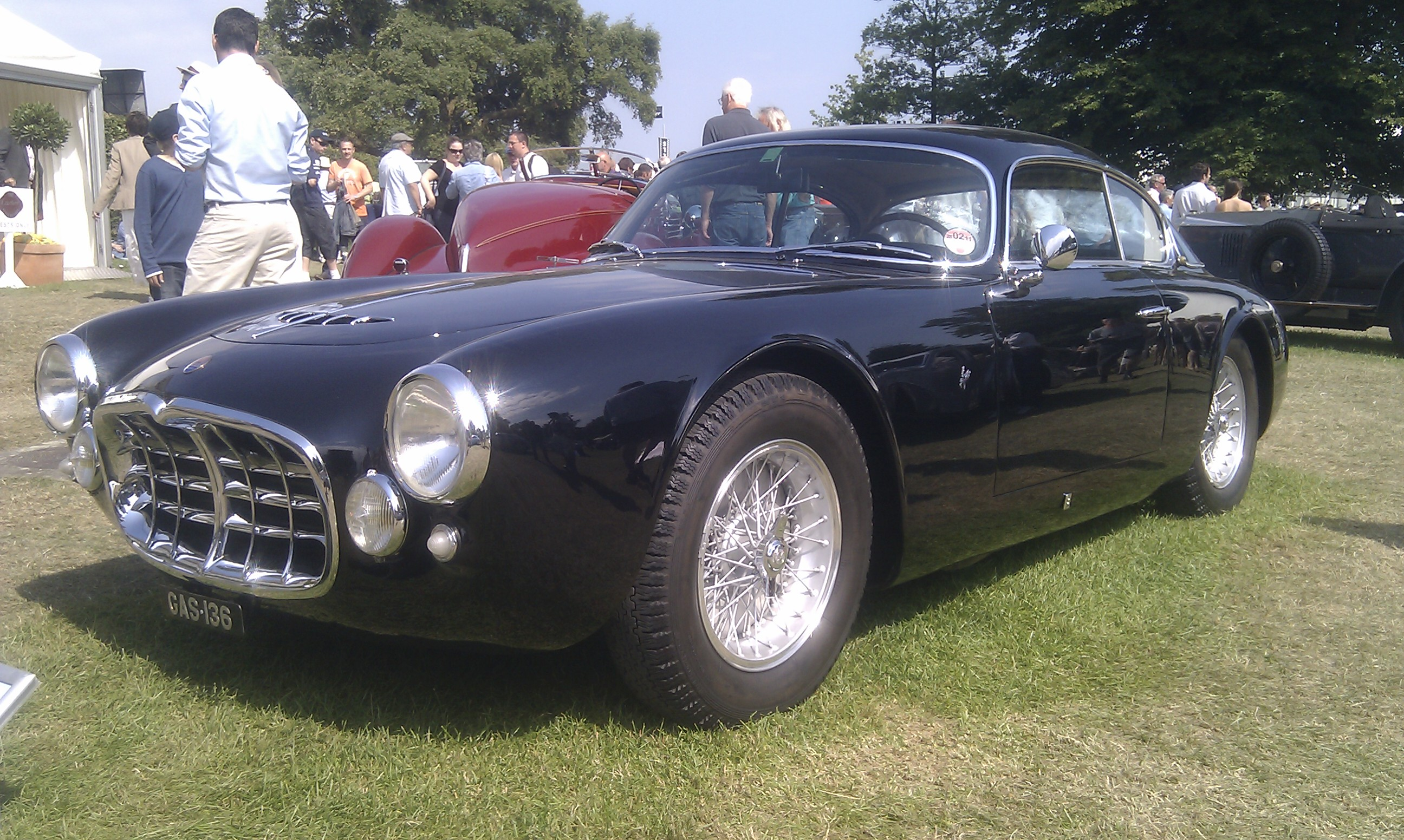 1955 Maserati A6G/54 2000 Frua, property of musician Jay Kay, at Goodwood Festival of Speed 2011.